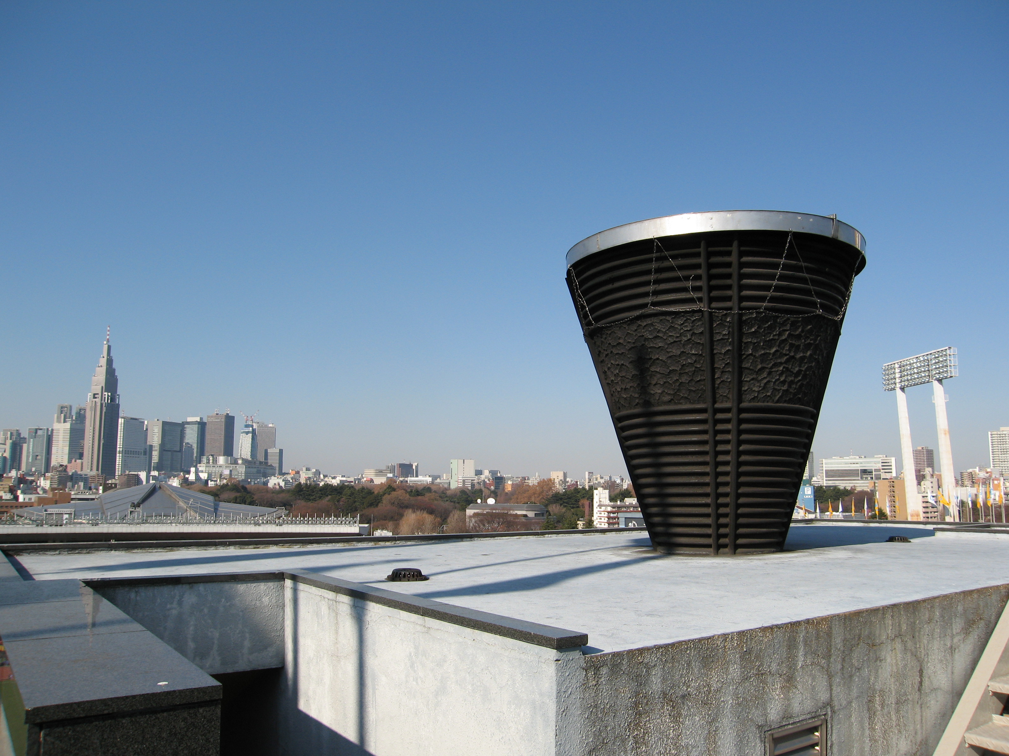 "Olympic Cauldron" (1964 Summer Olympics) National Olympic Stadium Tokyo, Japan